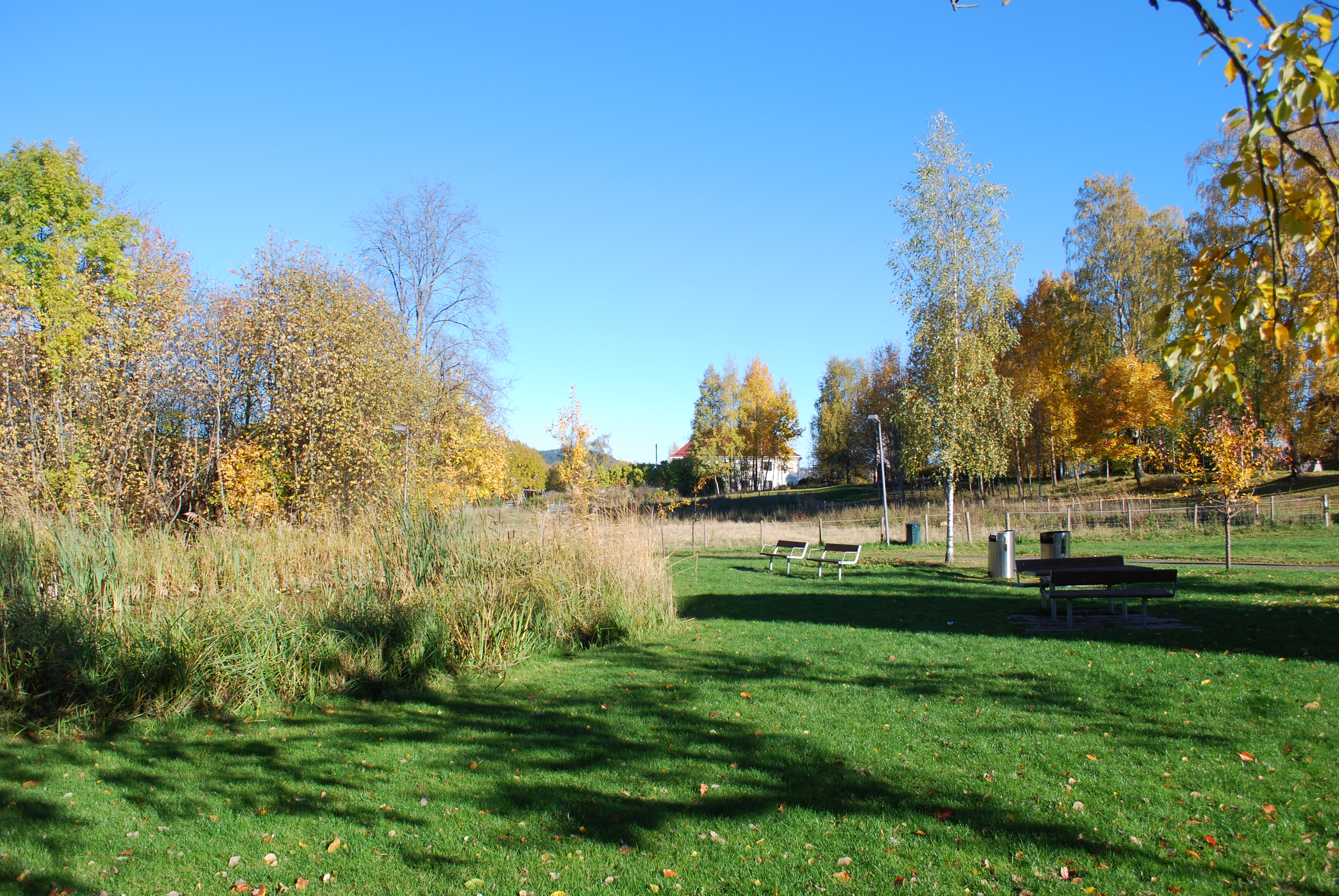 Furuset kulturpark sett mot nord, dammen til venstre